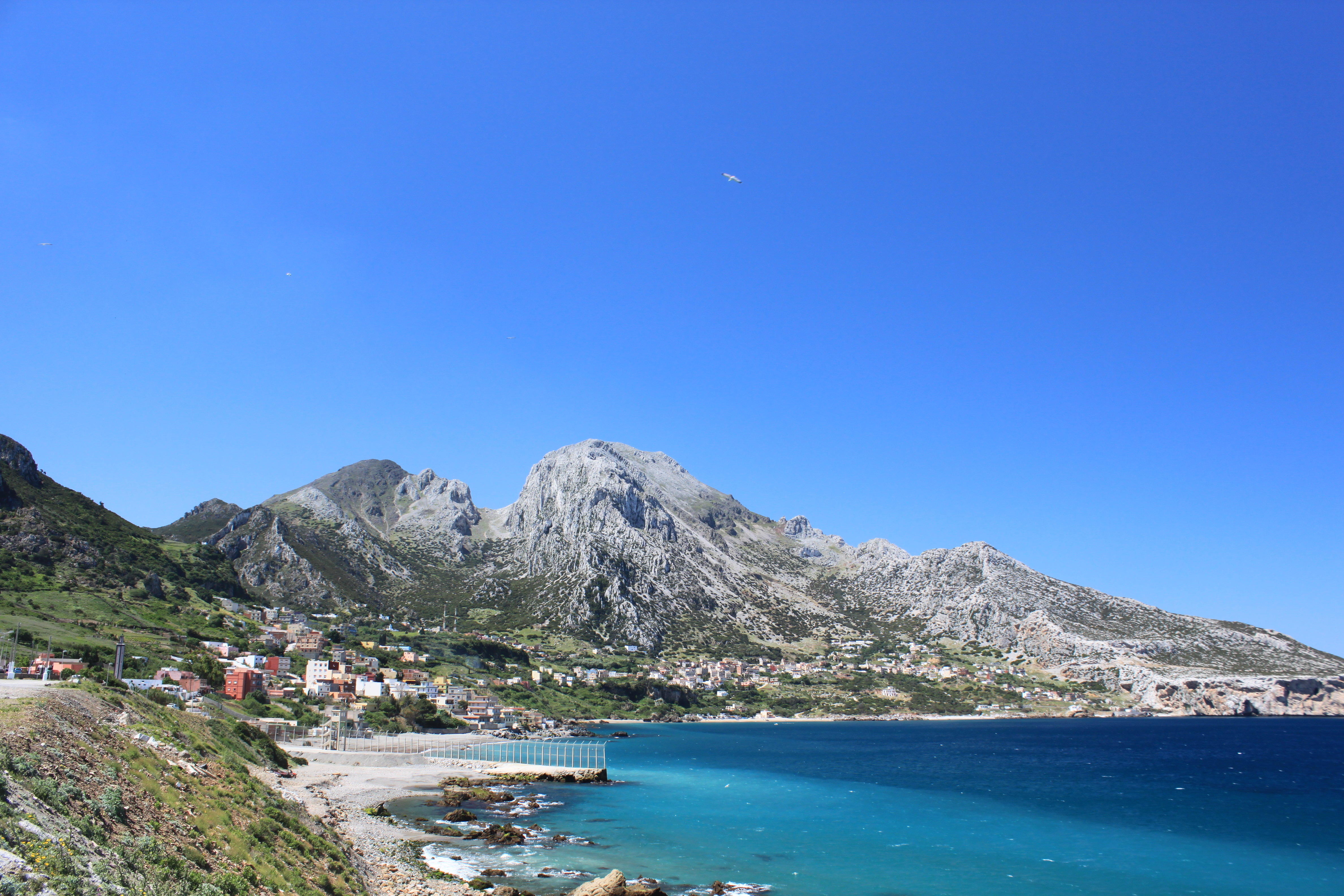 Jebel Musa - The woman sleeping - taken from Ceuta / La "mujer muerta" en su extensión